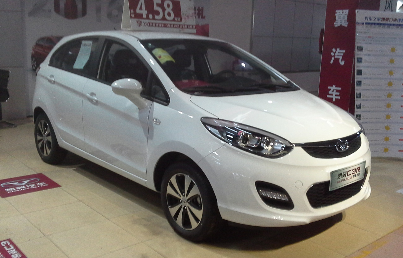 Cowin C3R photographed in Zhanjiang, Guangdong province, China.